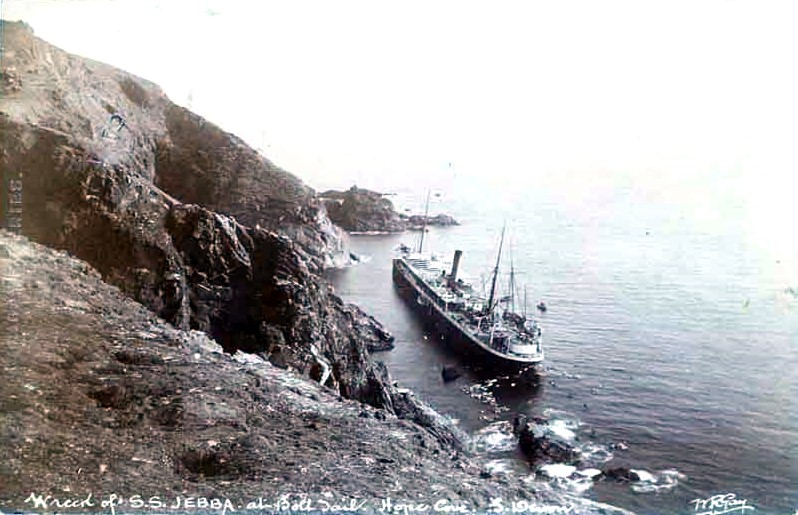 S.S. Jebba postcard 1907.